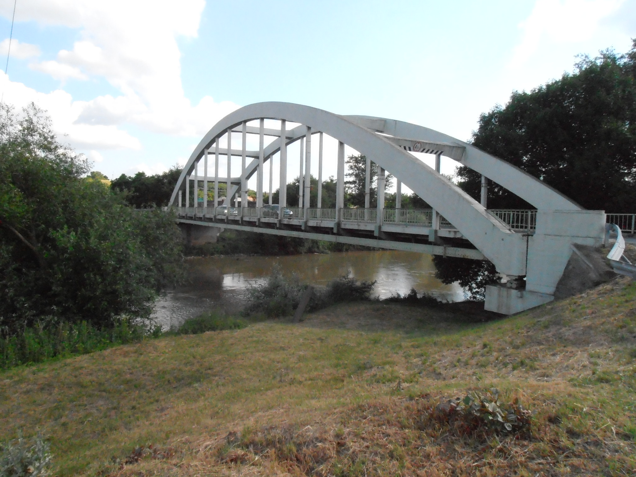 Bridge on Hernád river at Gibárt, Hungary